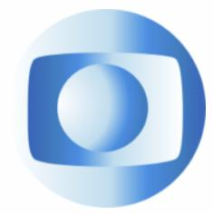 The Rede Globo's logo used from 1975 to the 1980s, with the REDE GLOBO branding. Is the frist Rede Globo logo created by Austrian designer Hans Donner.